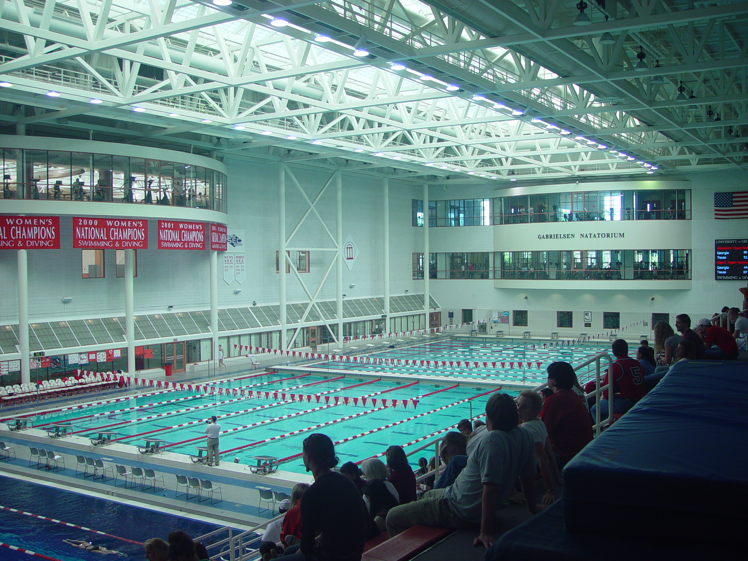 Unviersity of Georgia swimming and diving meet versus the University of Texas, Gabrielson Natatorium. Athens, Georgia, USA